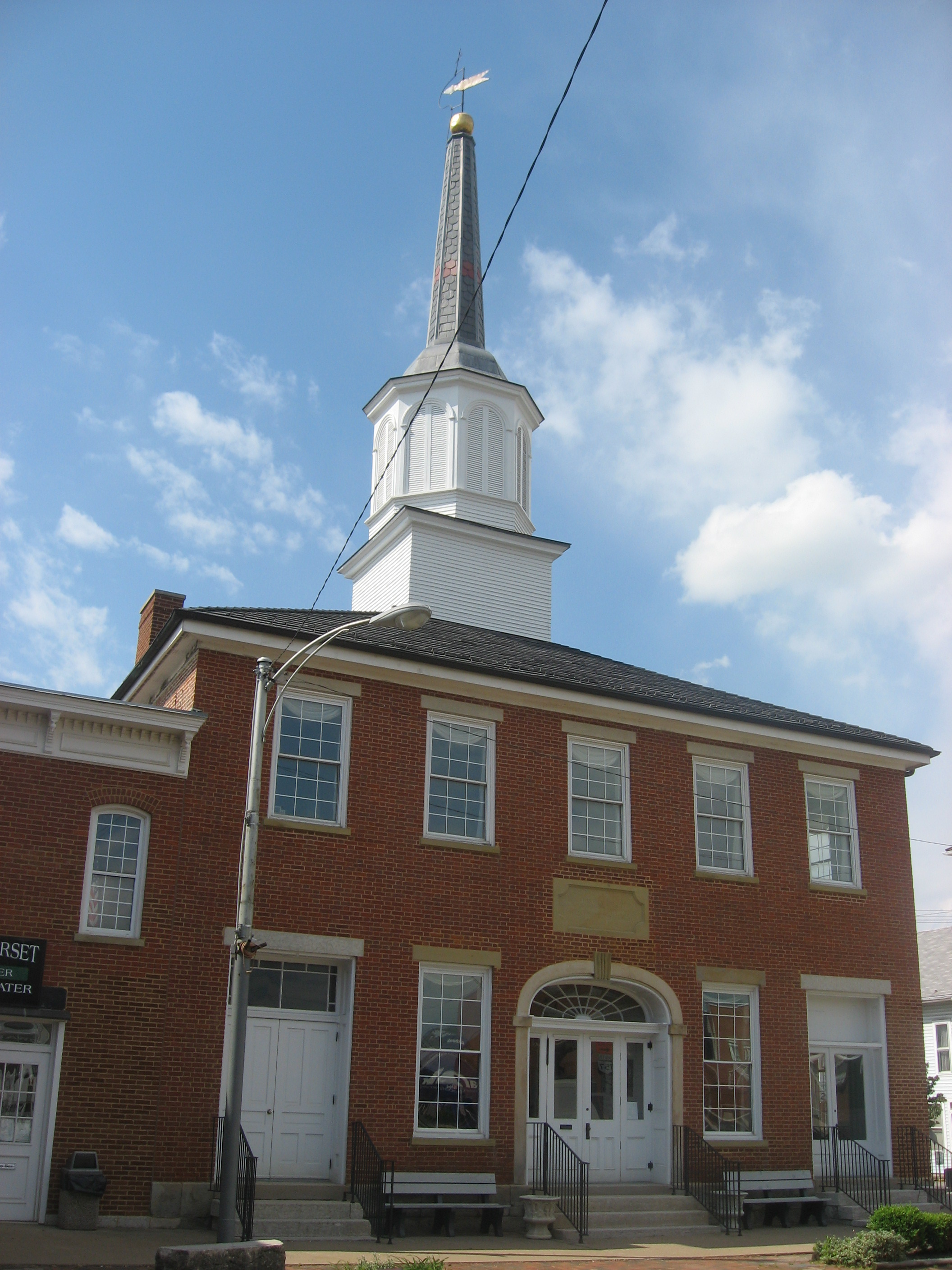 Front of Old Perry County Courthouse, located on the town square (junction of U.S. Route 22 and State Route 13) of Somerset, Ohio, United States. Built in 1829, it is part of the Somerset Historic District, a historic district that is listed on the National Register of Historic Places.